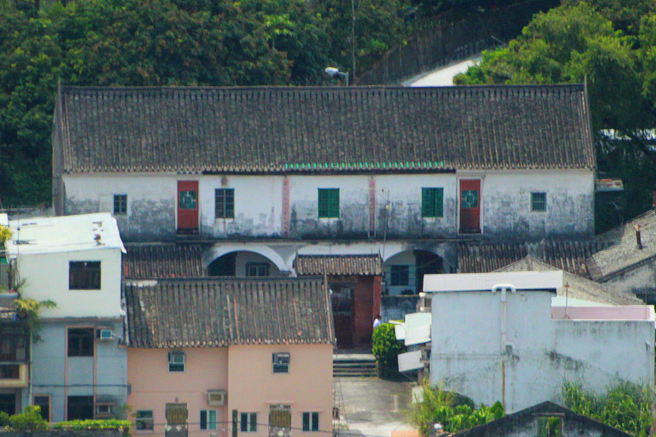 Kin Tak Lau Fanling Kin Tak Lau, Nos. 15-16 Shung Him Tong Tsuen, Lung Yeuk Tau, Fanling, N.T.